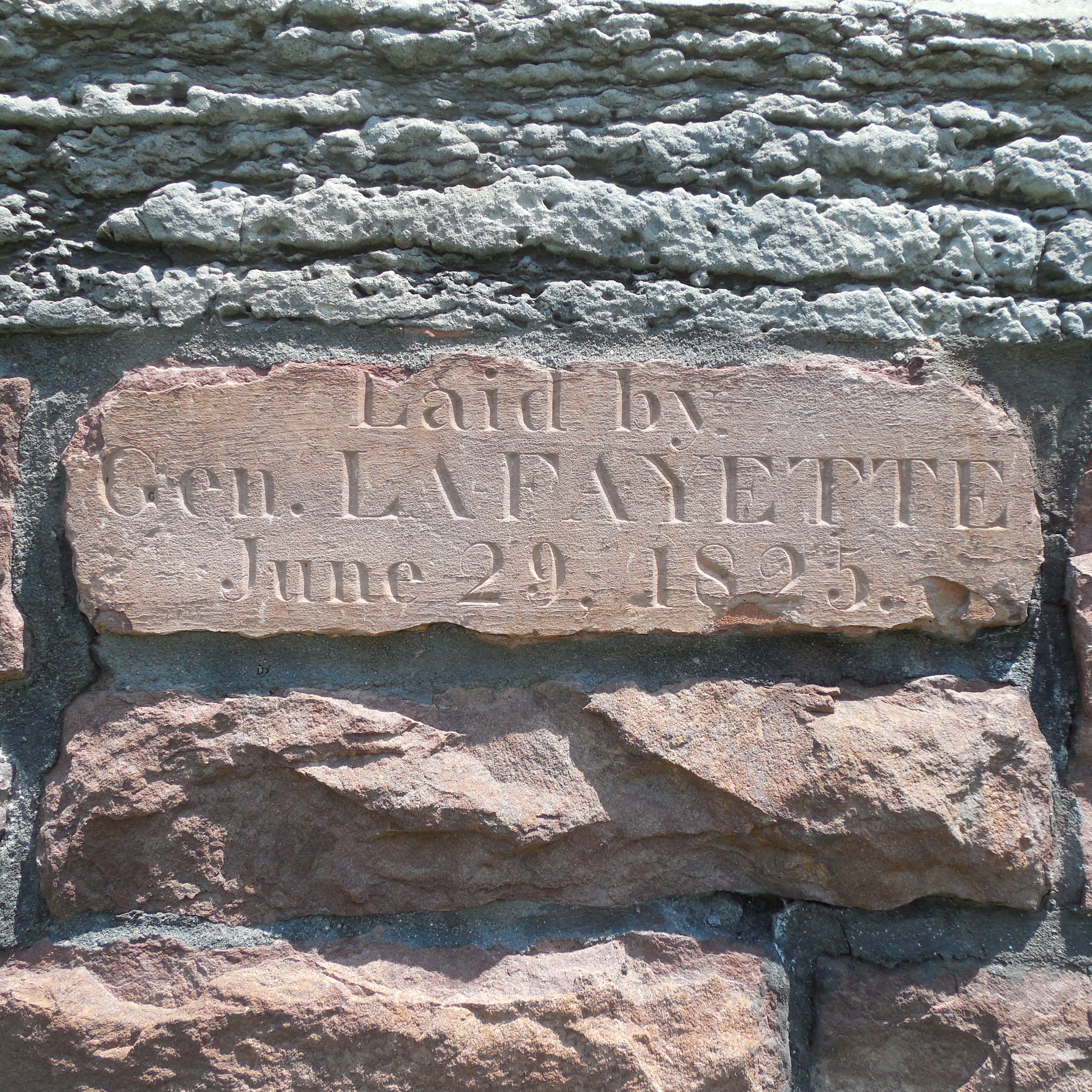 Originally constructed as two separate buildings (e.g. the "North College" & "South College") in 1825. On 29 June 1825, General Lafayette laid the original cornerstone to what is today known as of the University of Vermont "Old Mill" building, on the "South College" portion of the building, overshadowing the laying of the cornerstone to "North College" by Gov. Van Ness on 26 April of that year.[1] The "Middle College" was built between the two buildings (separated by 8' fire breaks) in 1829. In 1846, the three buildings were joined together to form the singular "Old Mill" building.[2]